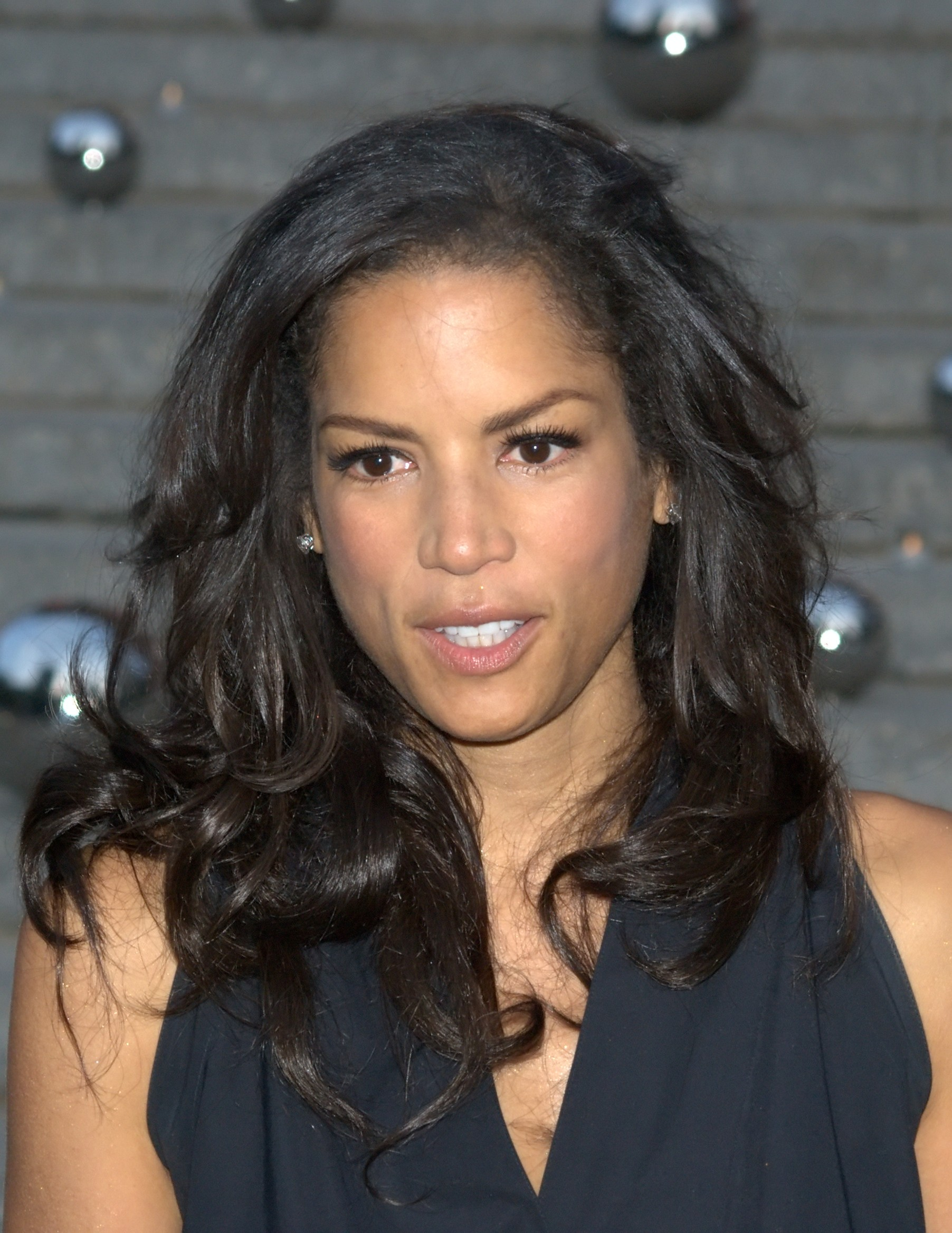 Veronica Webb, NYC 2010. Photographed by David Shankbone.